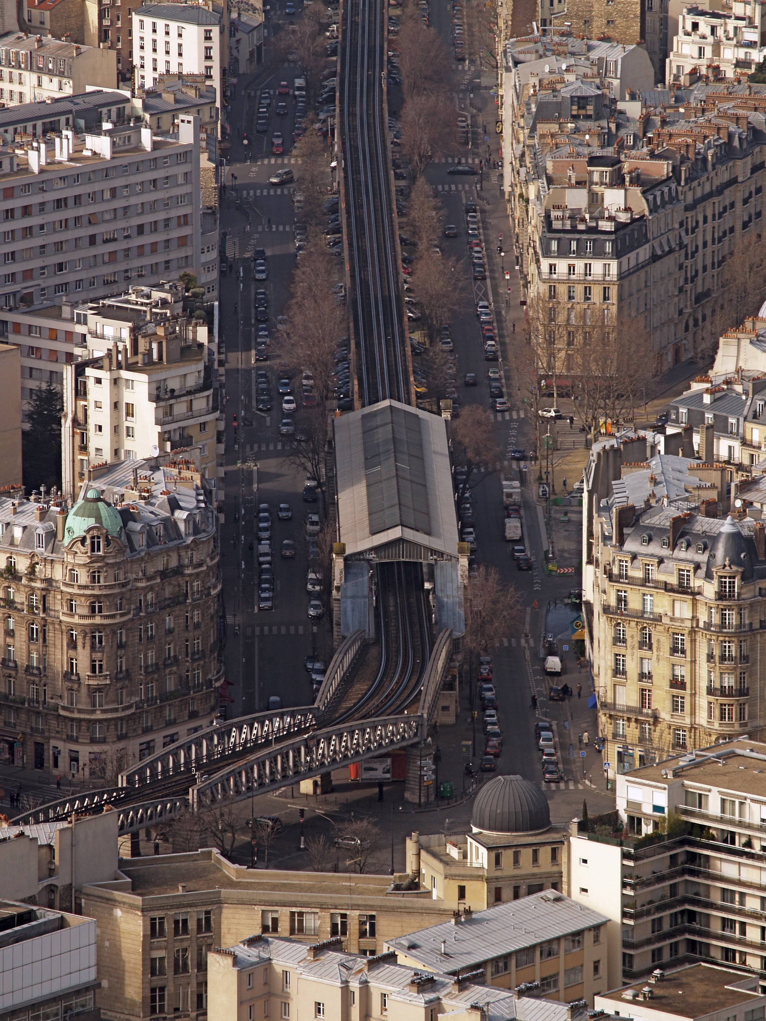 Paris Metro Ligne 6 from the Tour Montparnasse.